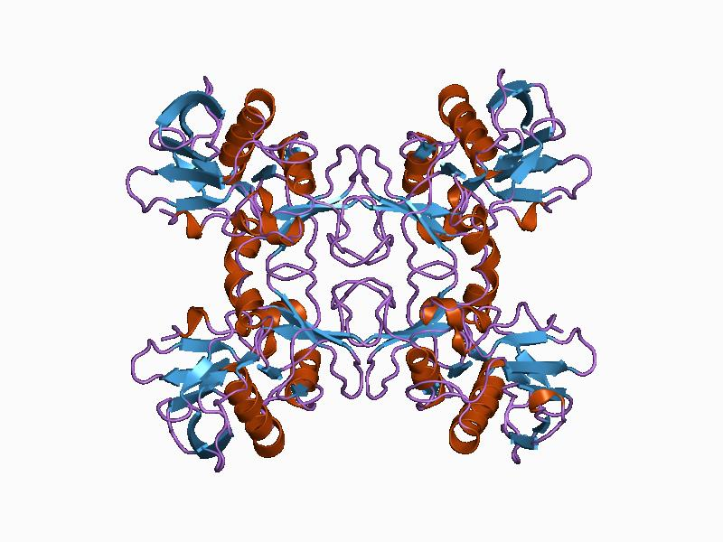 Cartoon representation of the molecular structure of protein registered with 1b1z code.